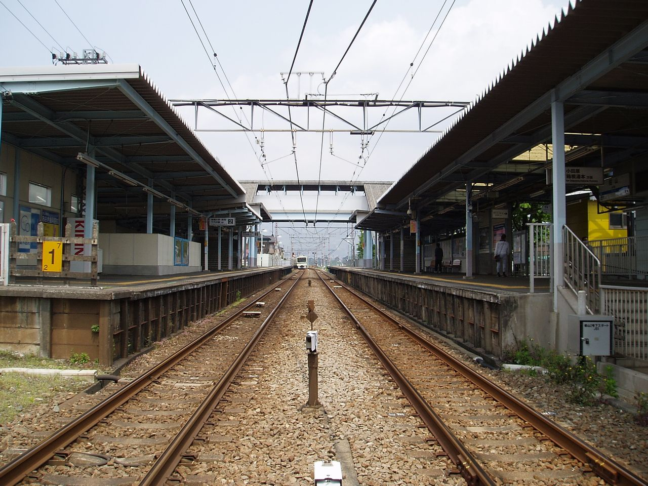 Inside of Kayama Sta.